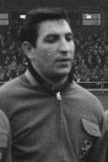 Goalkeeper Jean Nicolay, before the international game Netherlands vs. Belgium, November 12, 1961.